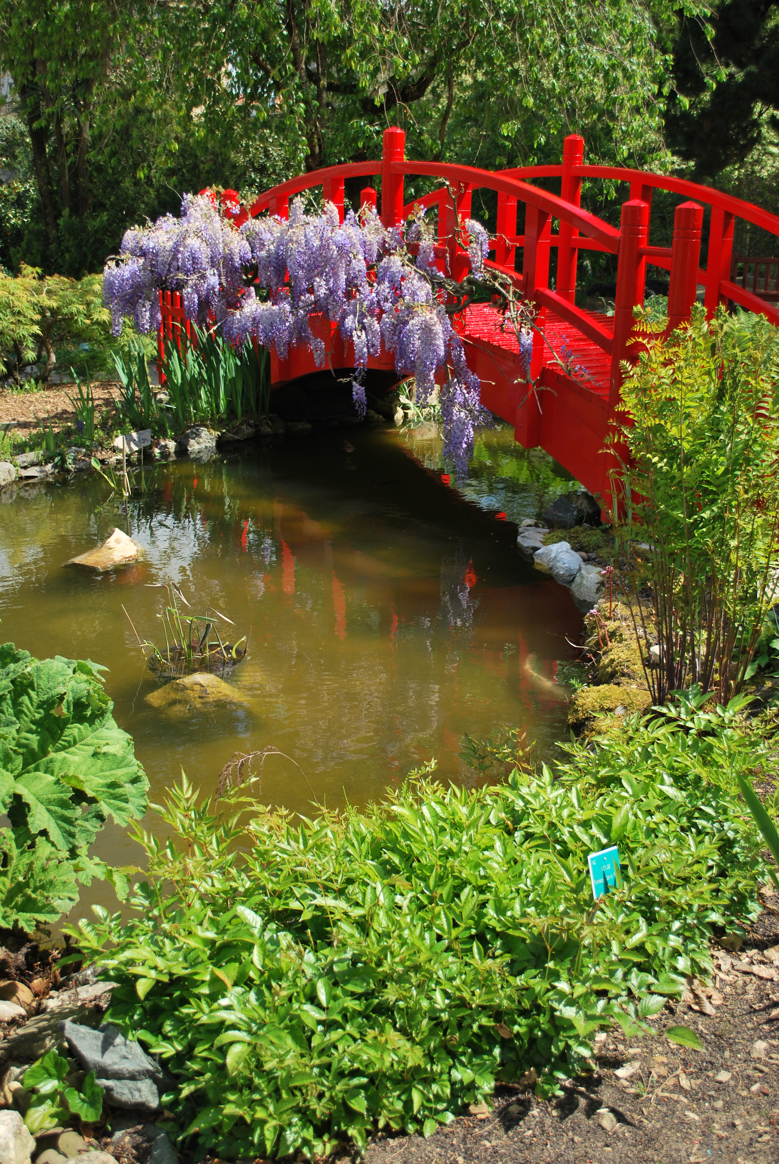 Bayonne Botanical Garden : picture of the bridge with the pond